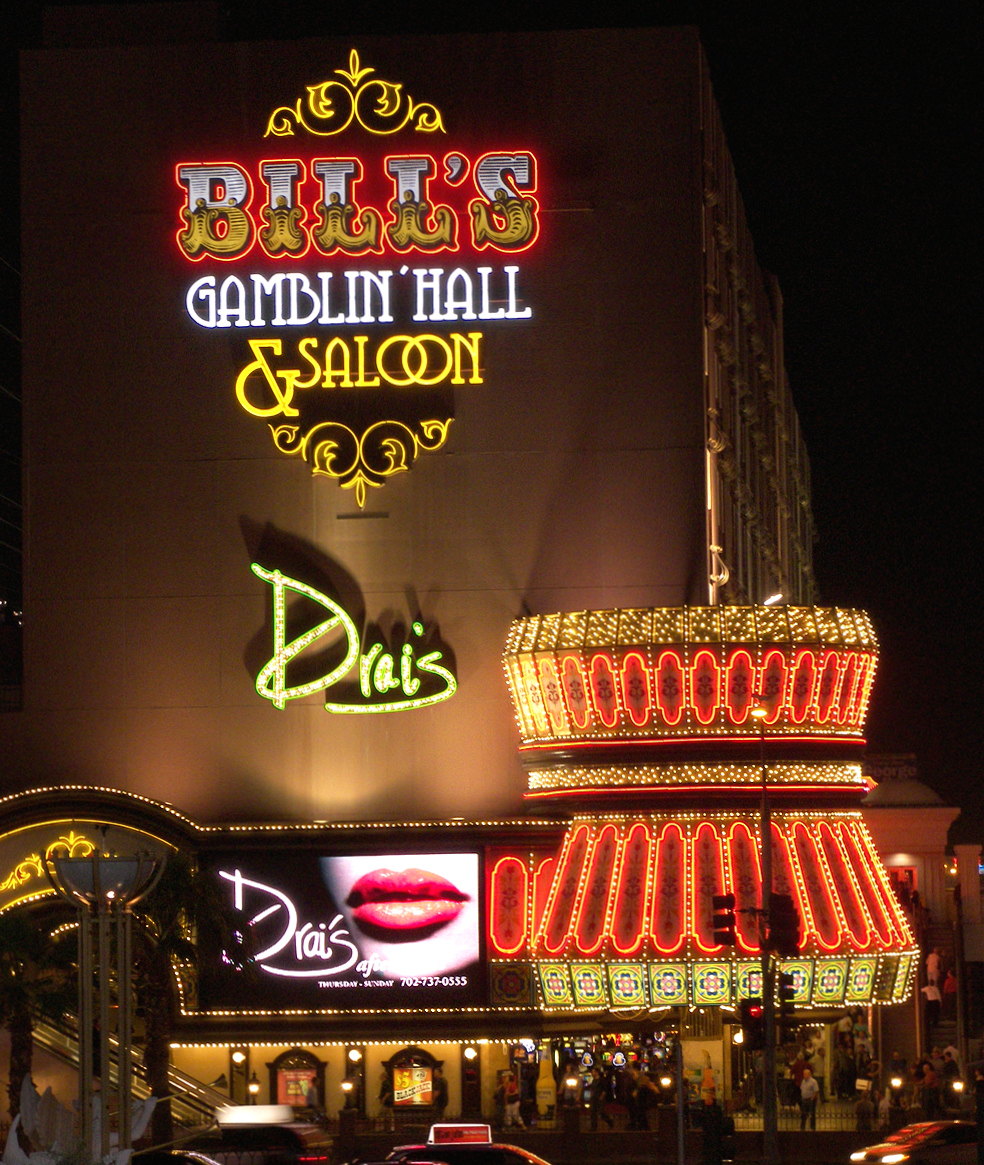 Bill's Gamblin' Hall and Saloon in Paradise, Nevada, United States.